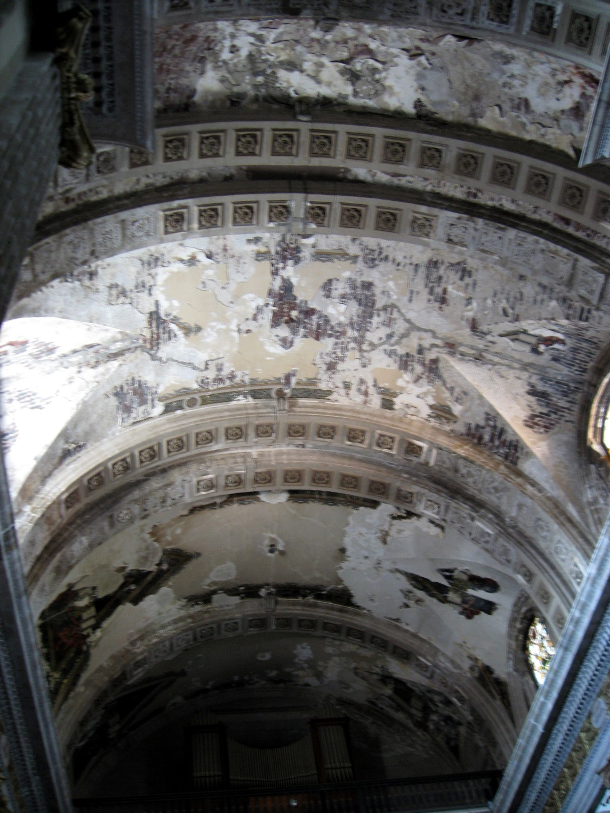 Ceiling of the central nave of the Nuestra Señora de Loreto Church in the historic center of Mexico City